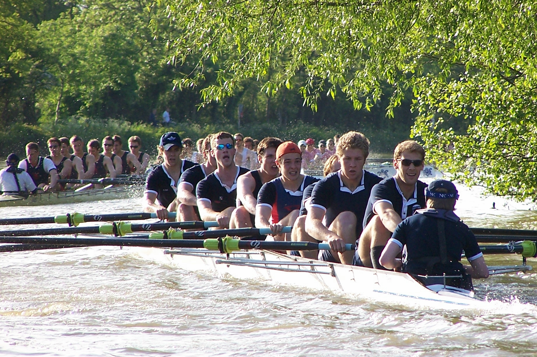 Victoria Dare, Christ Church Men's 1st VIII 2006